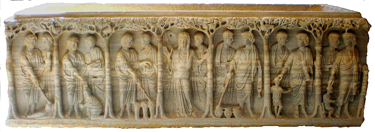 Sarcophagus "aux arbres"